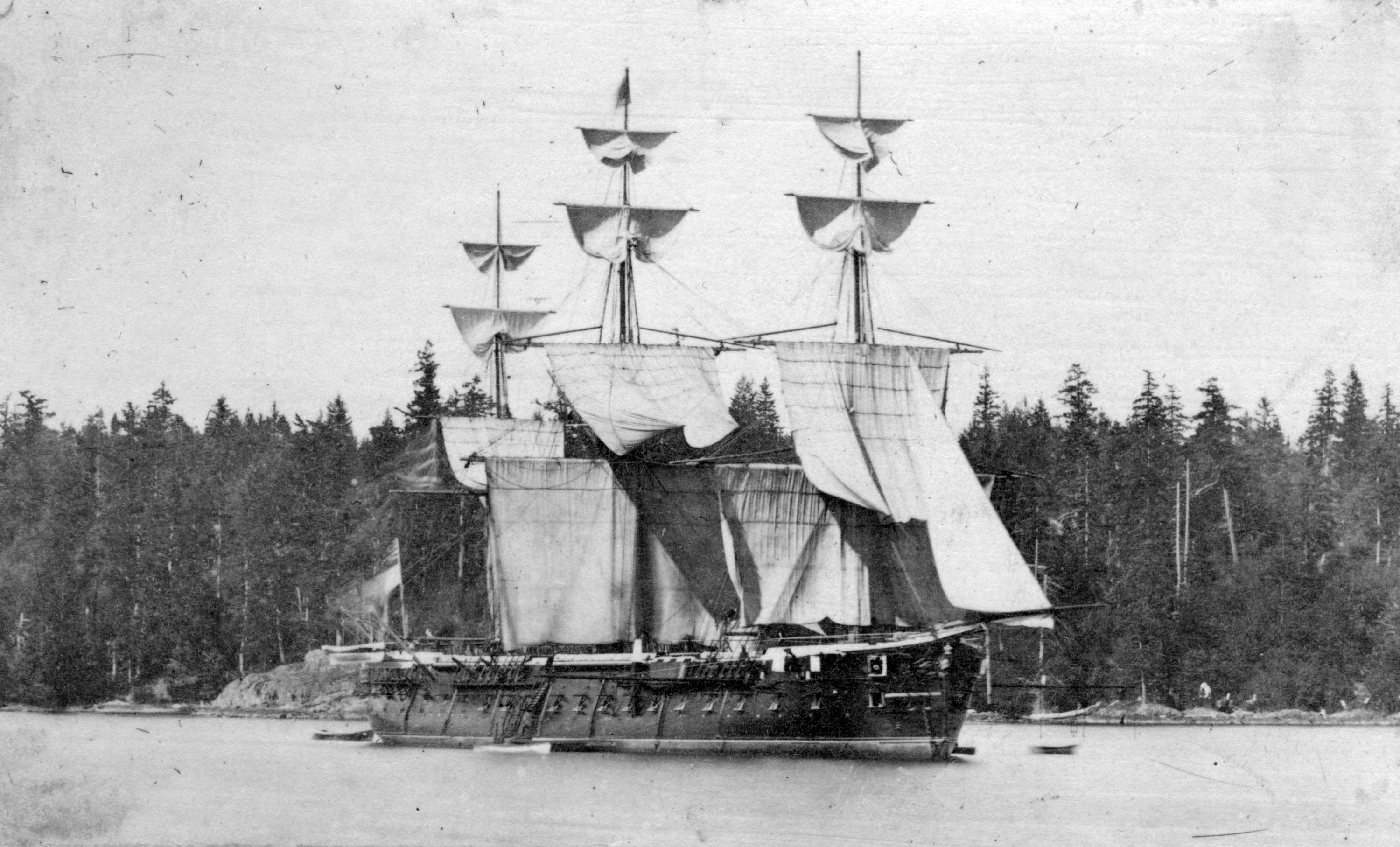 HMS Zealous with sails set. Comment : appears to be at Esquimalt, British Columbia, Canada.